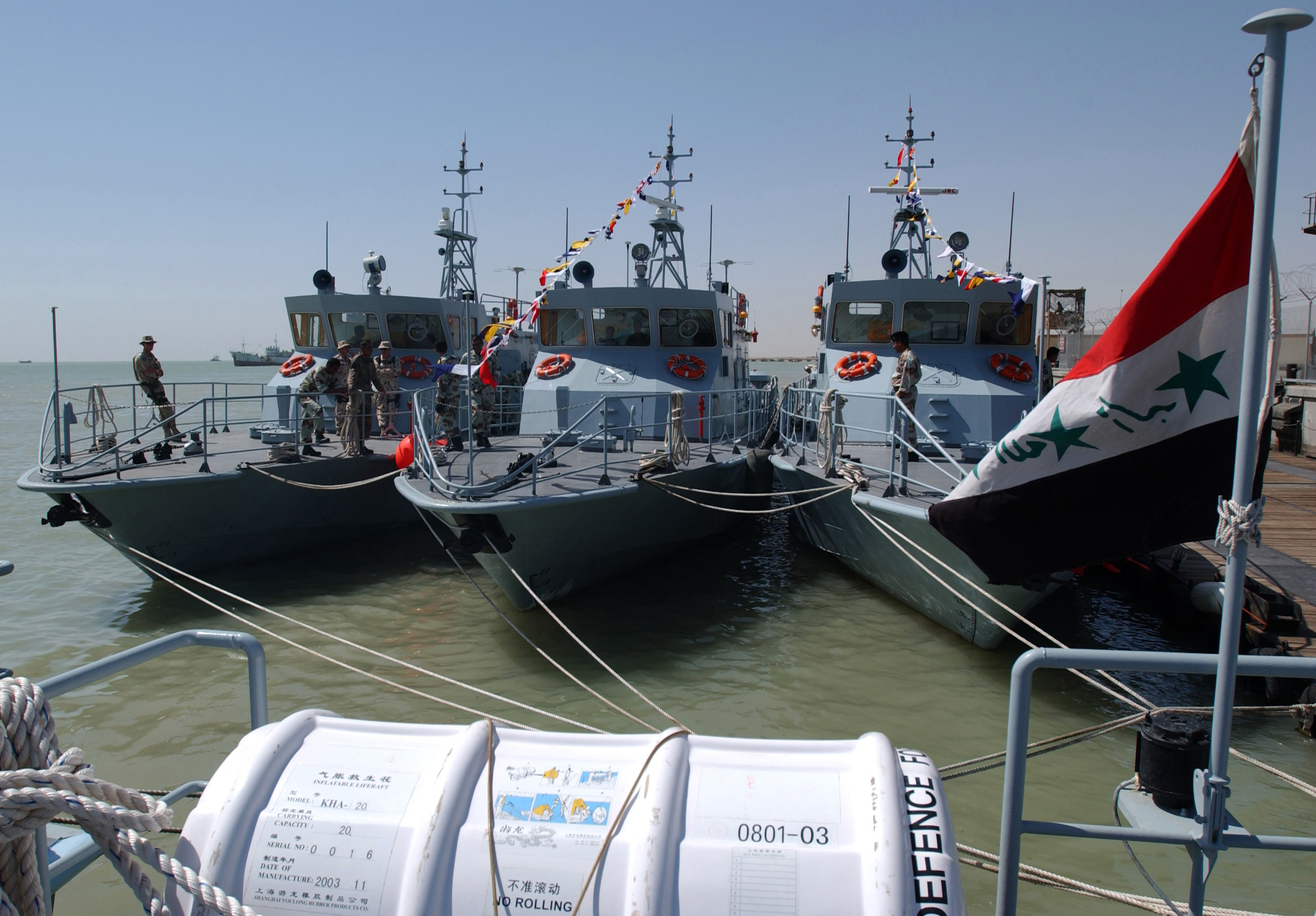 Umm Qasr, Iraq (Jun. 12, 2004) - Iraqi Coastal Defense Force (ICDF) Patrol Crafts are prepared for the official opening of the ICDF base in Umm Qasr, Iraq. The ICDF was created in January 2004 and has been training under British-led coalition forces. The ICDF will provide anti-smuggling, policing, search and rescue and various other capabilities along the Iraqi coastline. U.S. Navy photo by Journalist 2nd Class Wes Eplen. (RELEASED)